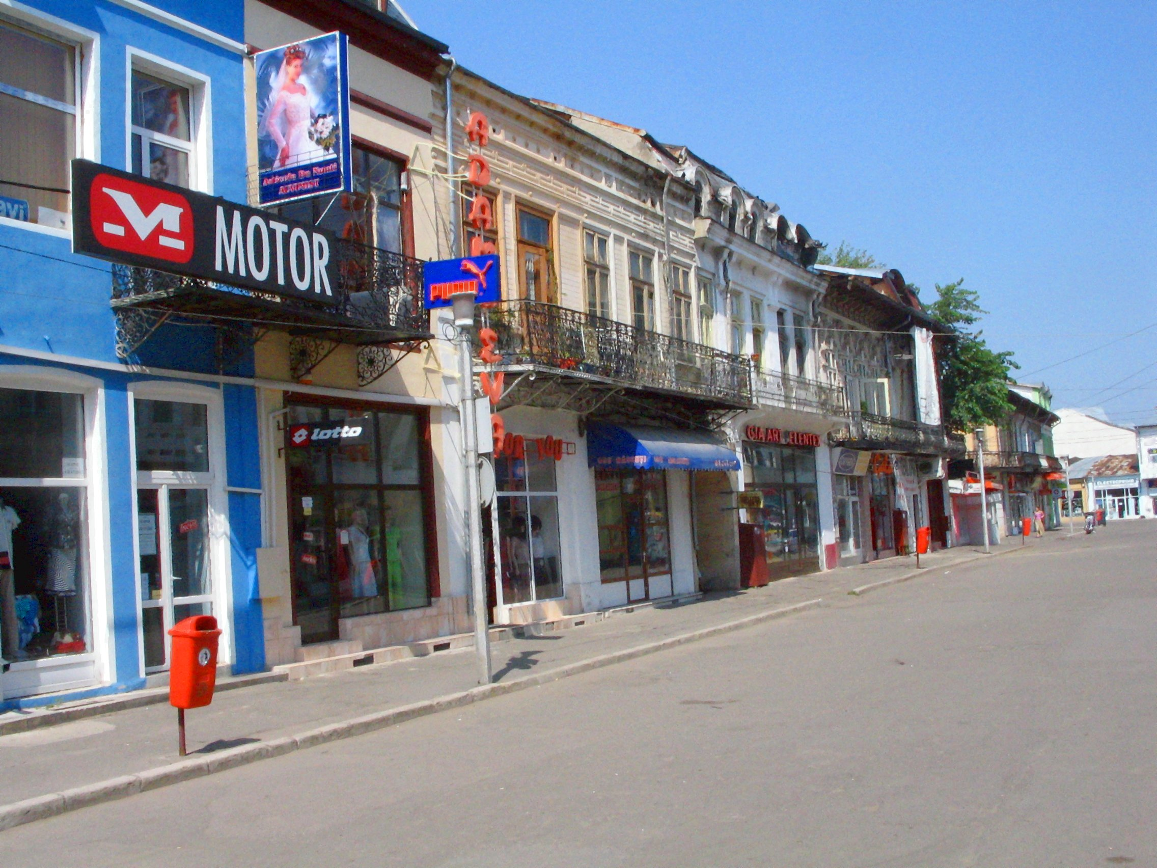 Cuza Voda Street, in the old commercial town center